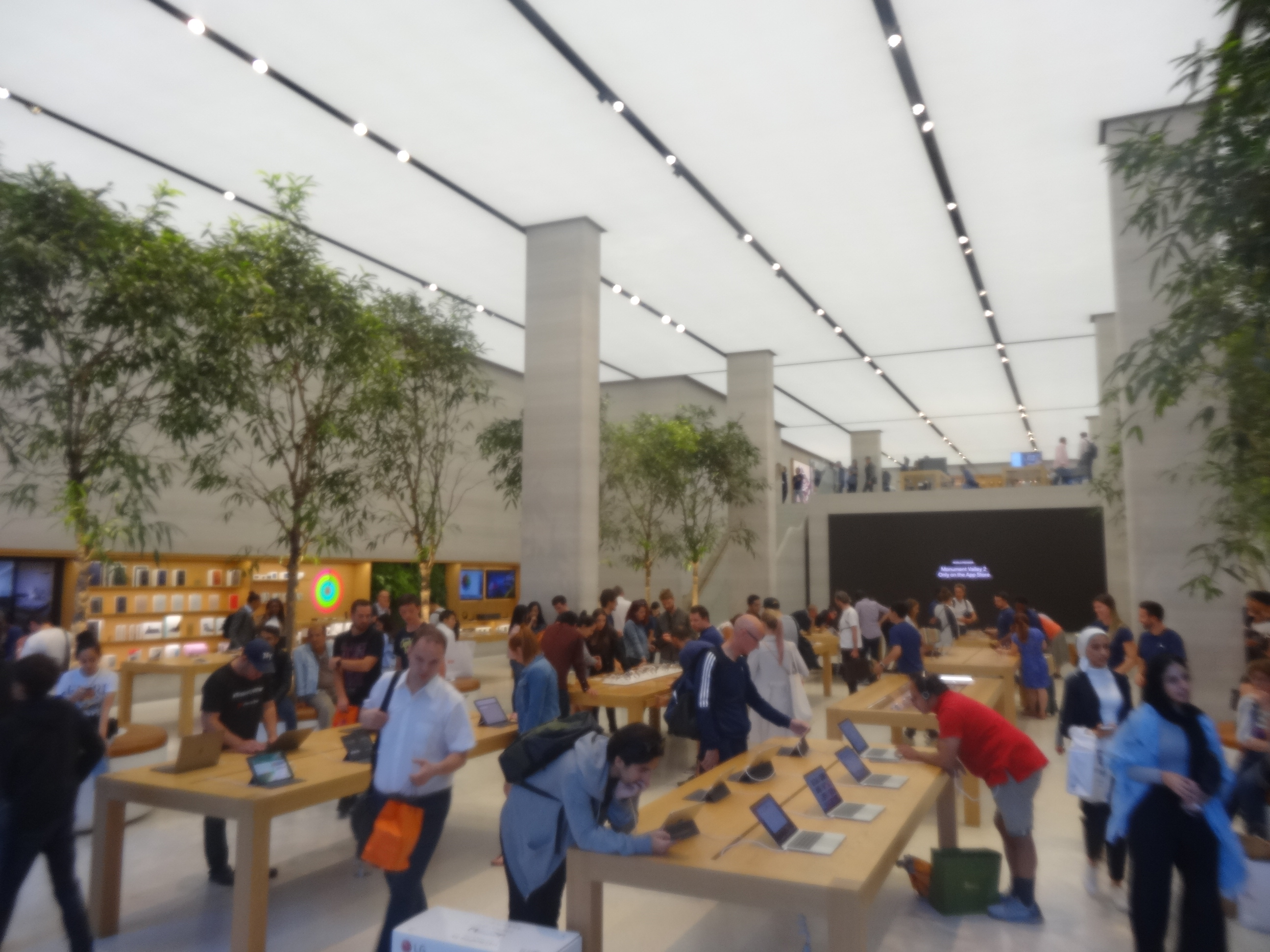 Apple Store, Regent Street